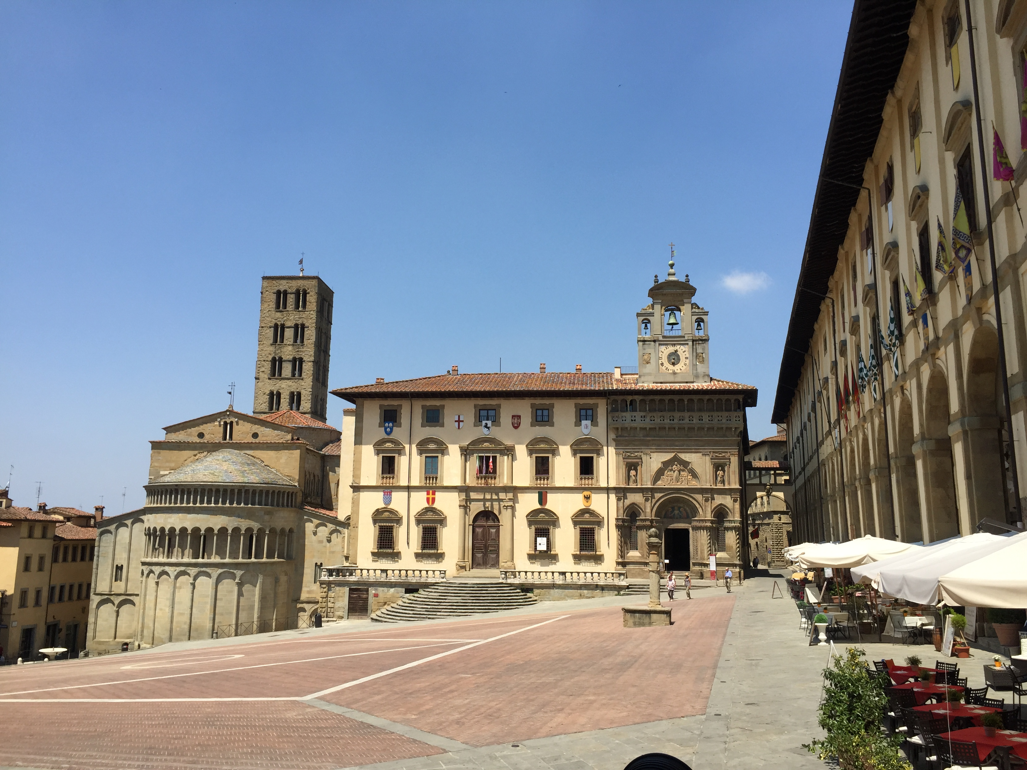 Looking towards the Church of Santa Maria della Pieve